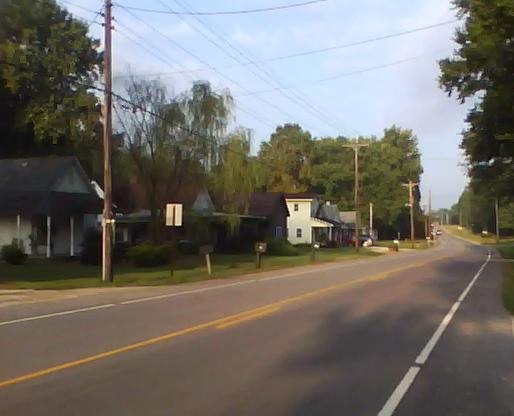 The main road through Cloverland